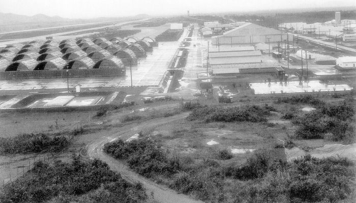 Phu Cat Air Base, South Vietnam.